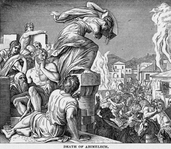 The death of Abimelech, illustration from Charles Foster, The Story of the Bible, Philadelphia: A.J. Homan Co., 1884.